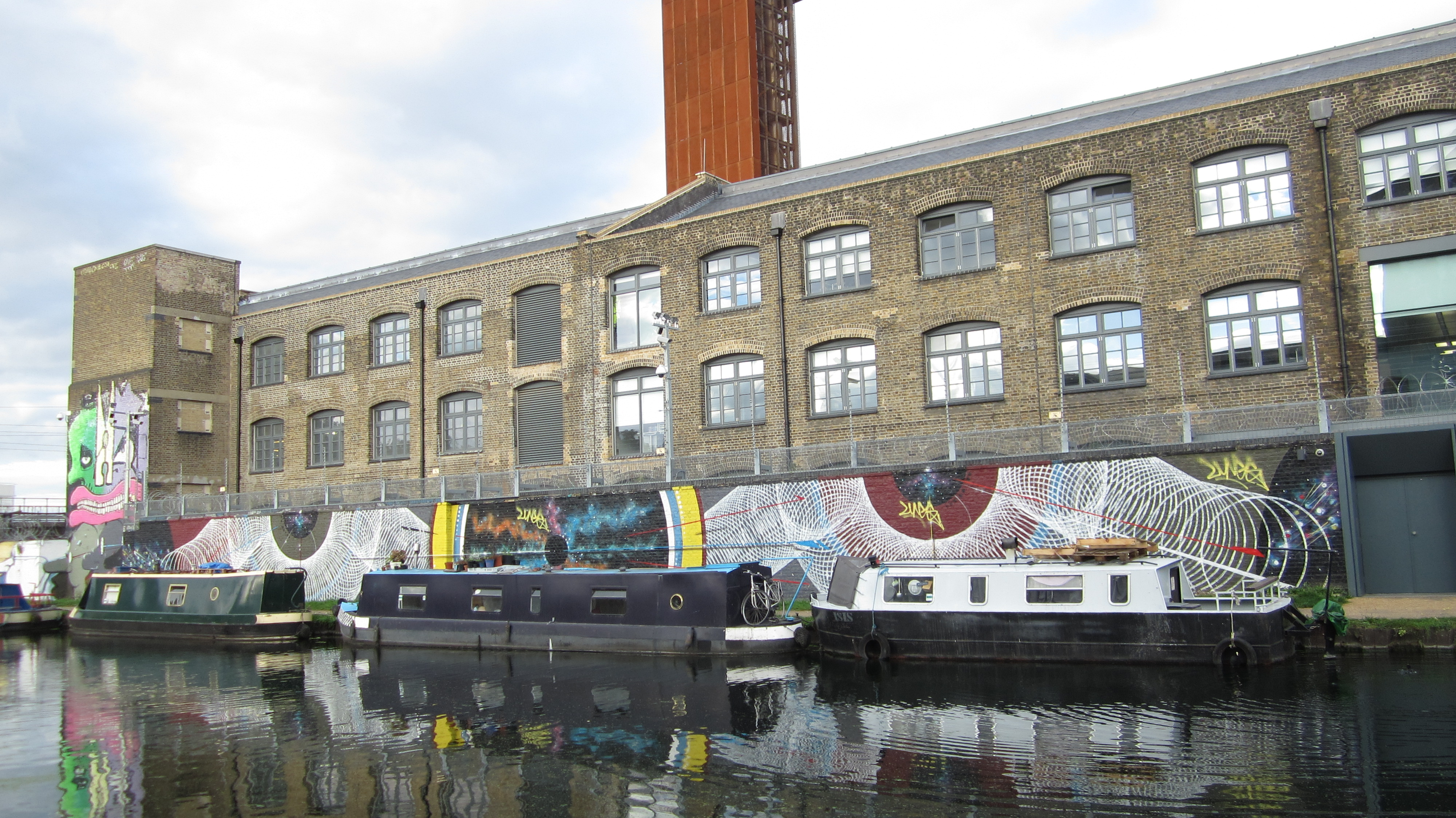 Photo of the RIver Lea navigation in Hackney Wick, taken from the White Post Lane bridge.